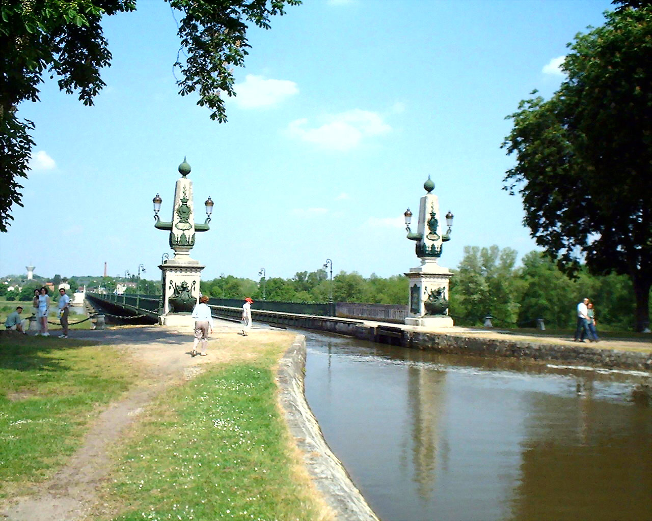 The iron canal bridge across the Loire river in Briare (France), Europe's longest, built at the end of the 19th century by Gustave Eiffel. Date of picture: May 25, 2001.